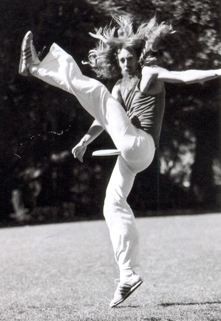 Ken Westerfield doing a freestyle scissors catch 1977